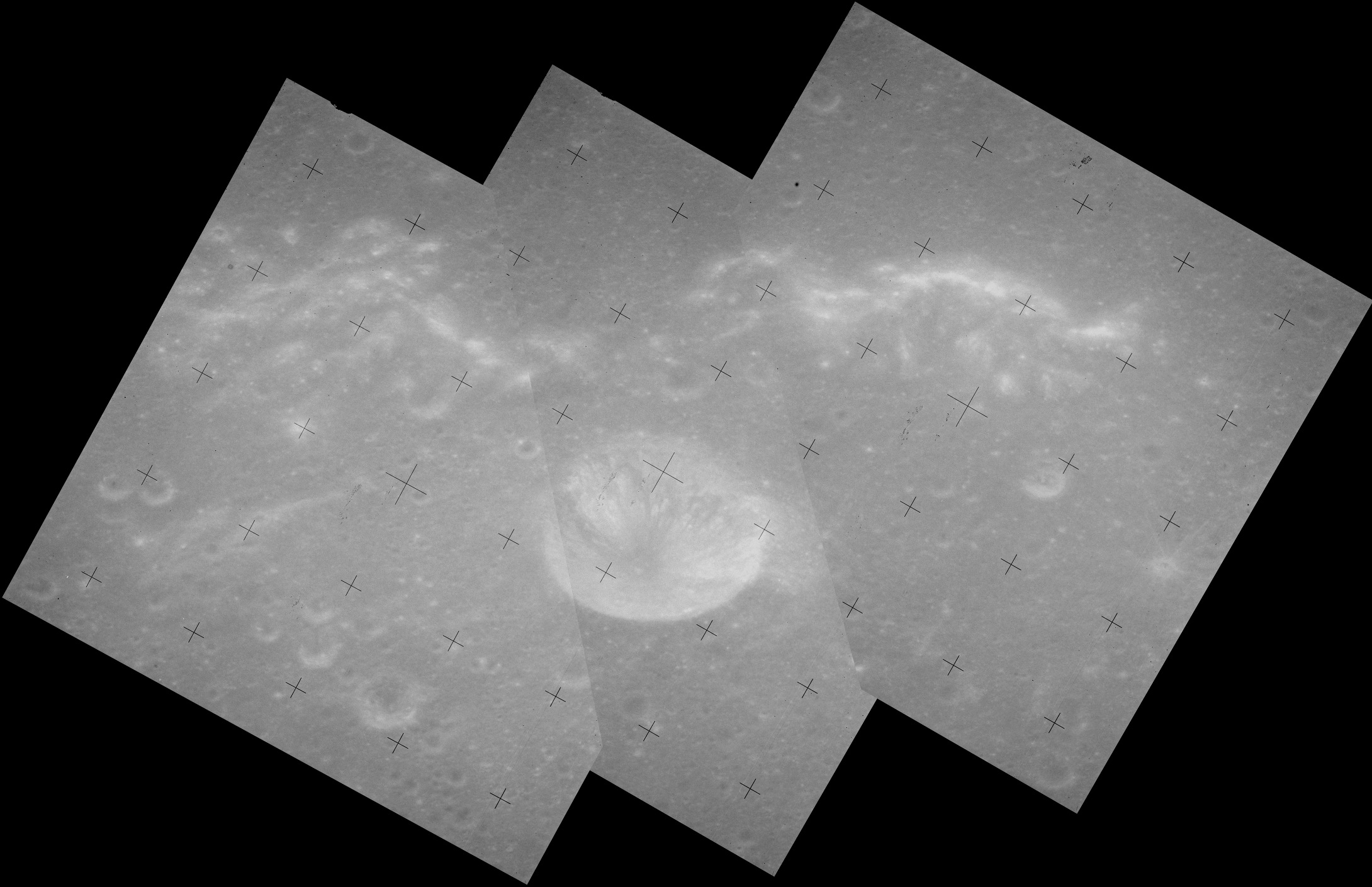 Mosaic showing oblique view of Wallach, facing west, photographed with 500 mm lens from orbit.